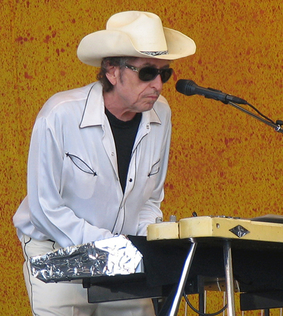 Photo from Bob Dylan's April 28, 2006 concert appearance at the New Orleans Jazz and Heritage Festival (aka "Jazzfest")